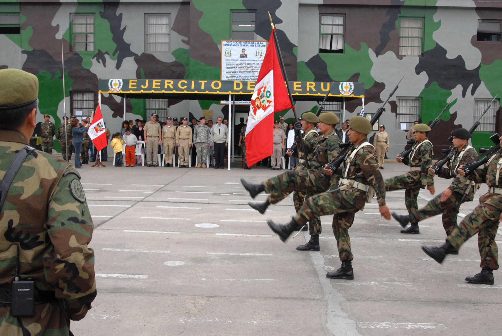 Peruvian army soldiers perform during a closing ceremony to celebrate the port visit of US hospital ship USNS Comfort (T-AH 20) in Trujillo, Peru.